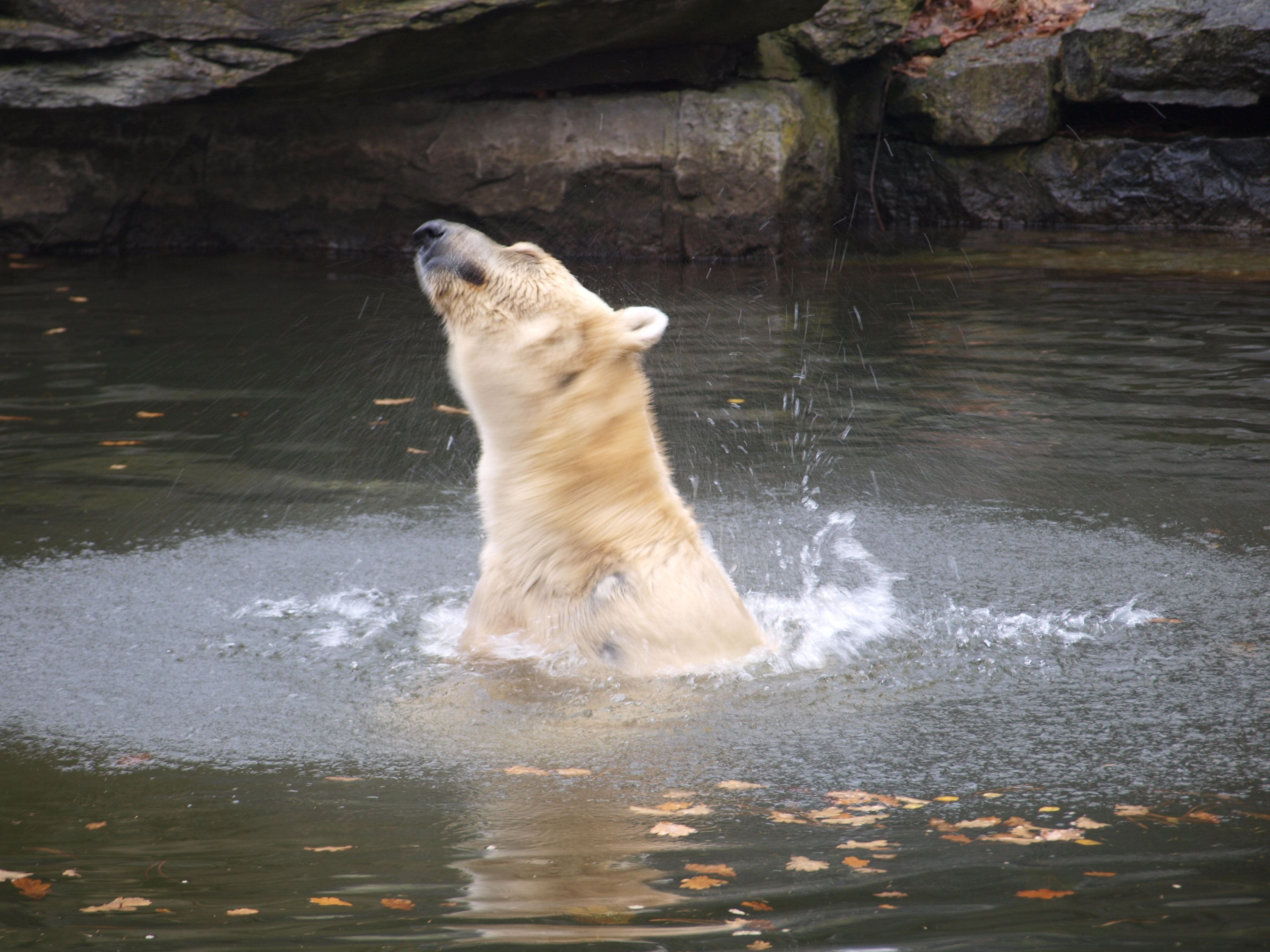 head-shaking Polarbear